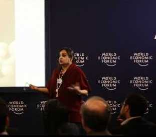 Jeroo Billimoria speaking at the World Economic Forum